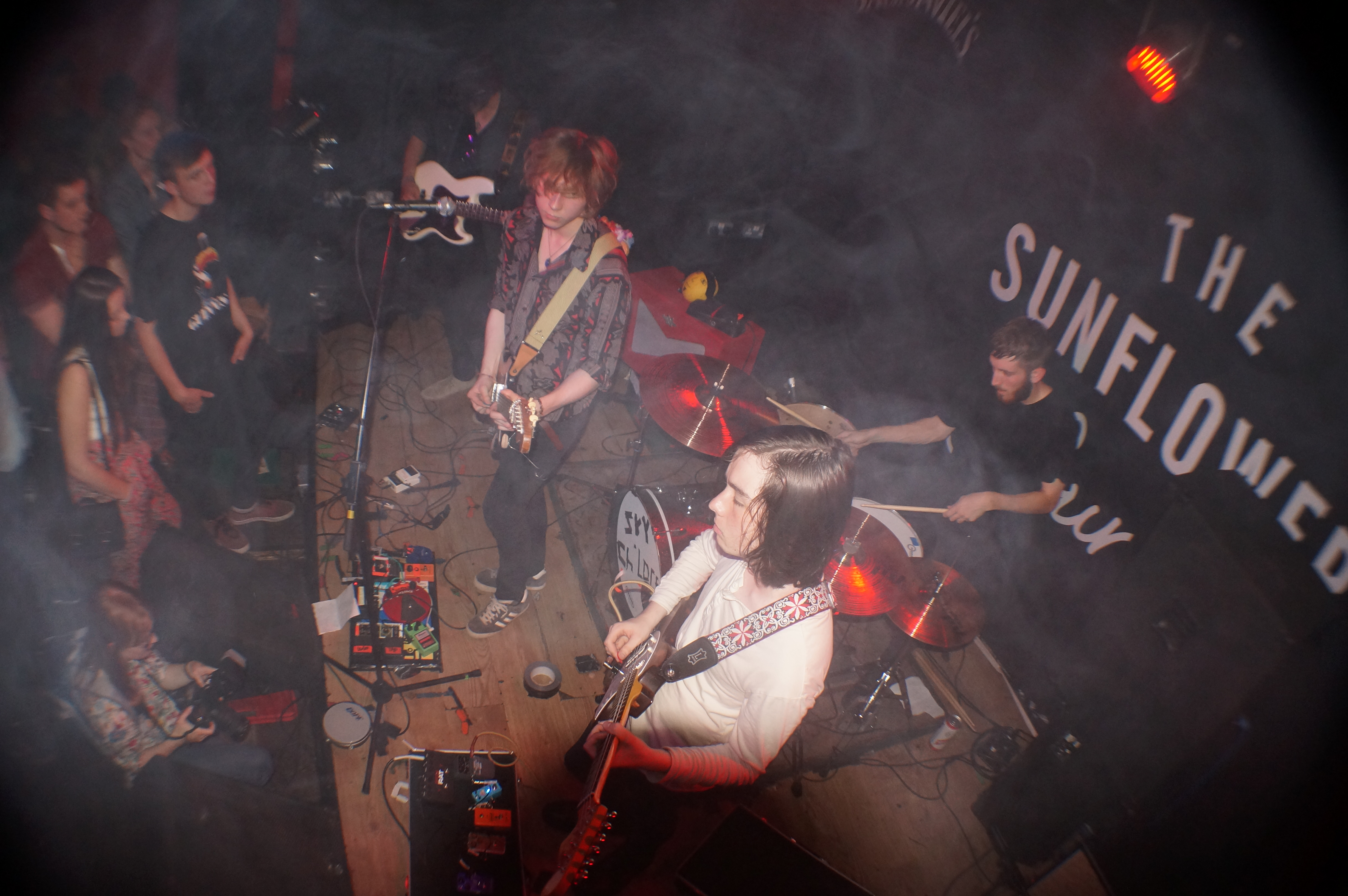 Sky Children Performing At Rainbow